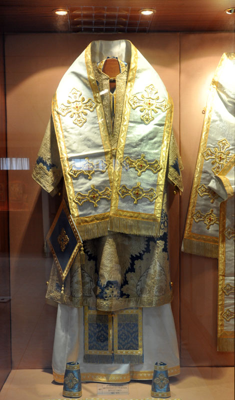 Relics of Bishop Chrysostomos of Drama and Smyrni, image from the Ecclesiastical Museum, Drama, East Macedonia, Greece